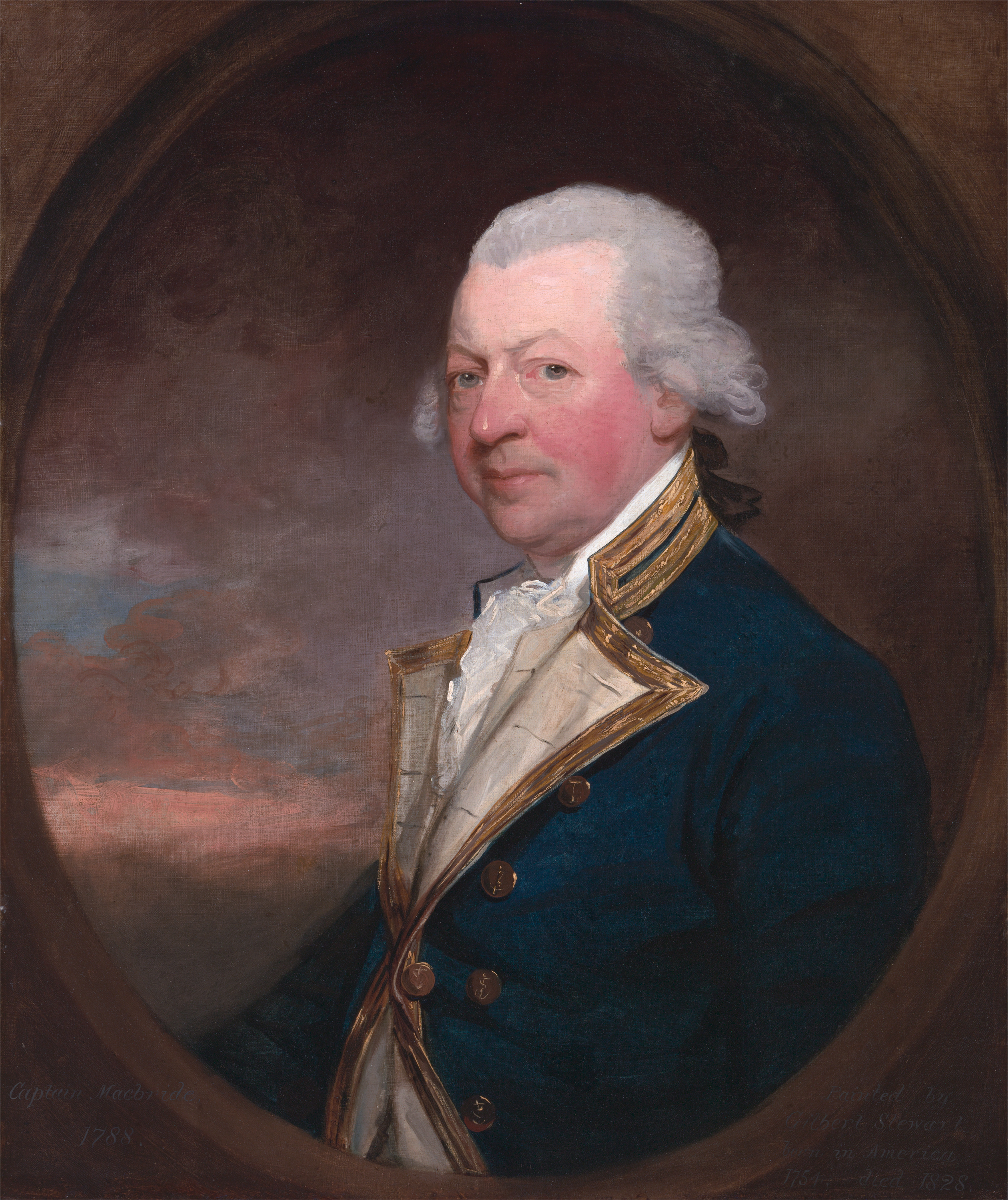 Captain John MacBride